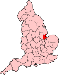 Map showing Holland in Lincolnshire